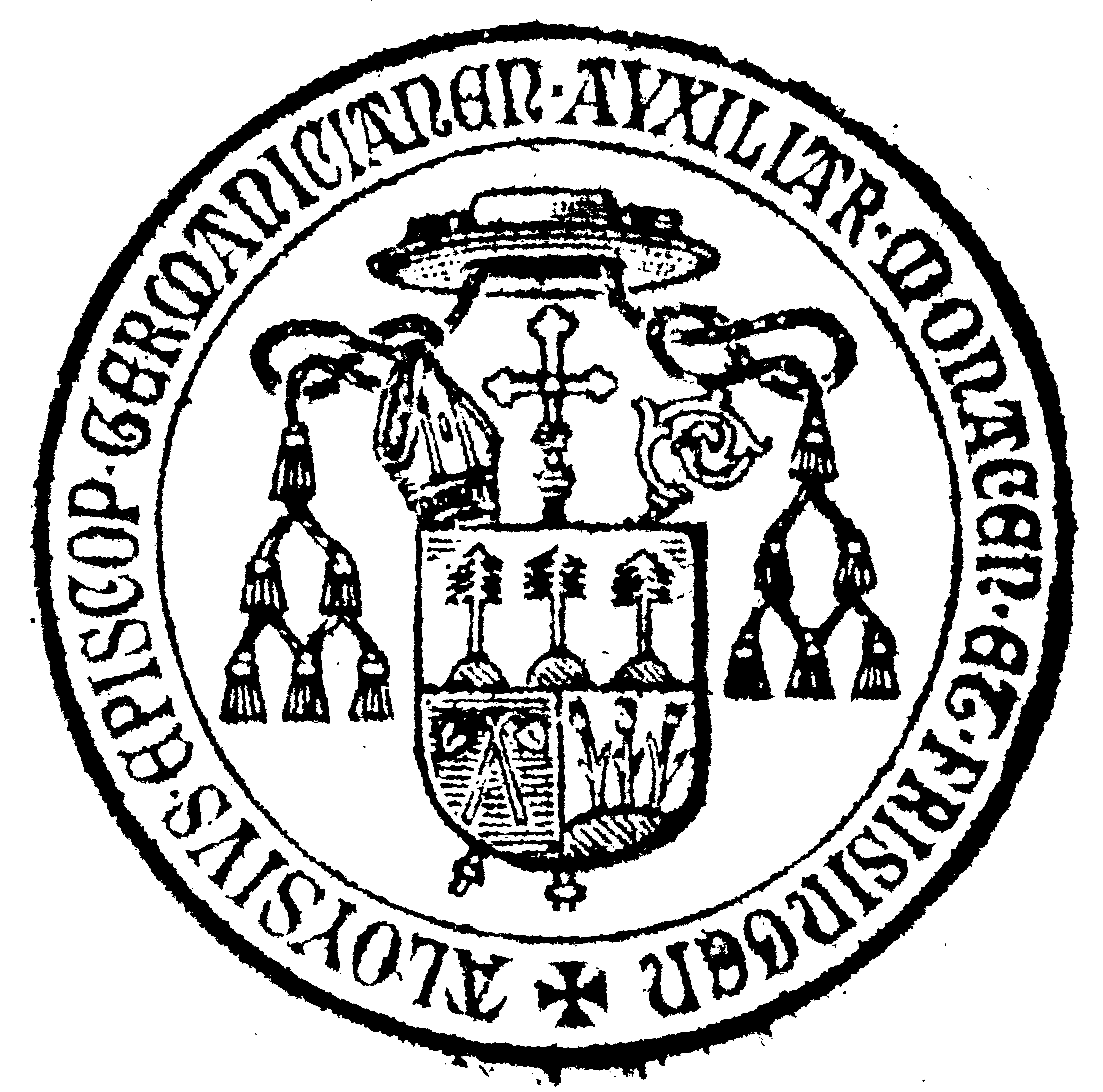 Coat of arms of the auxiliary bishop Alois Hartl